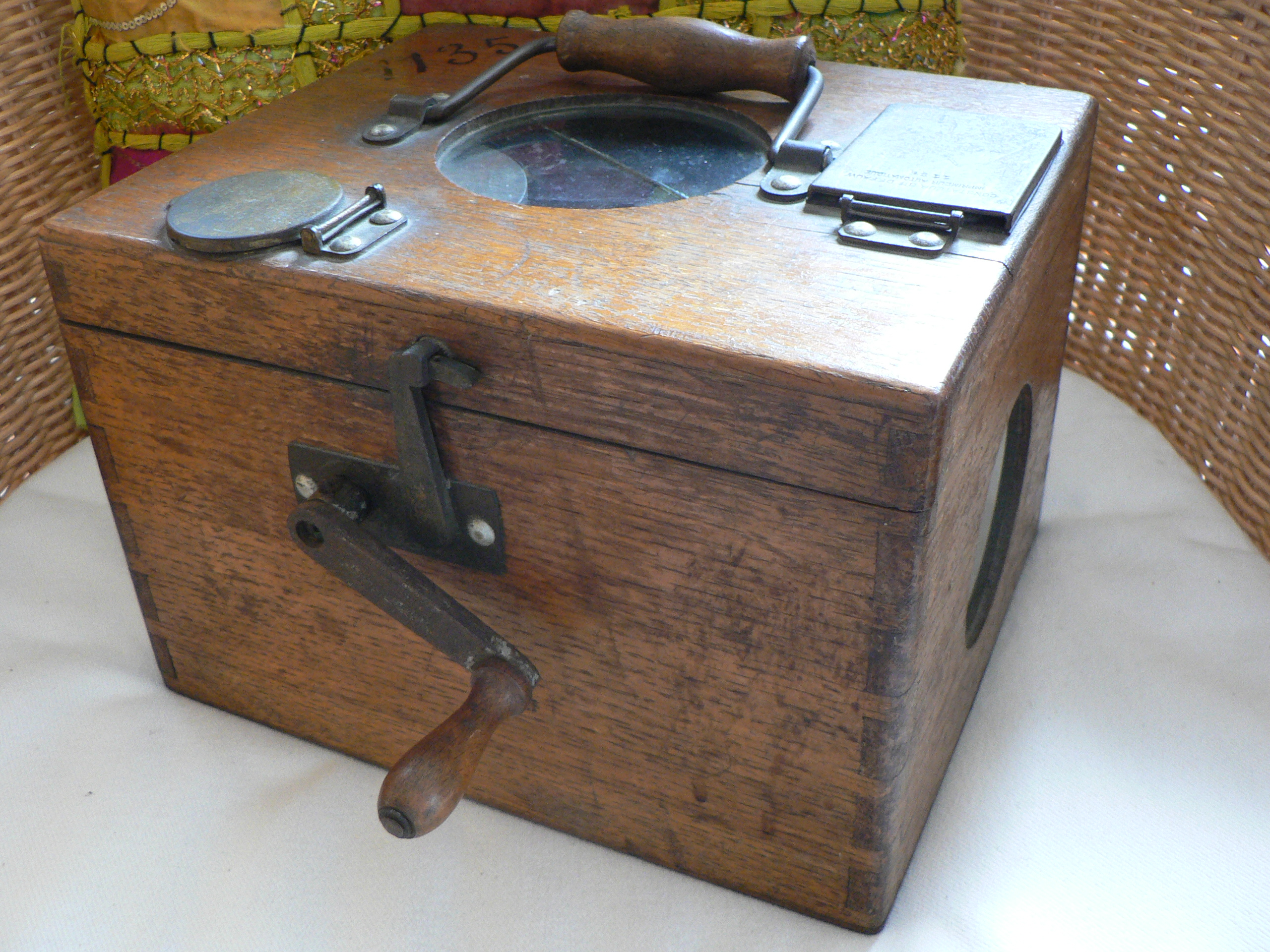 Pigeon race clock, Flanders, Belgium